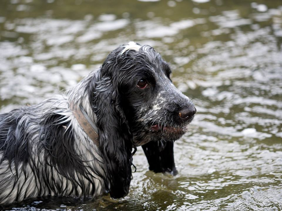 english cocker spaniel in water